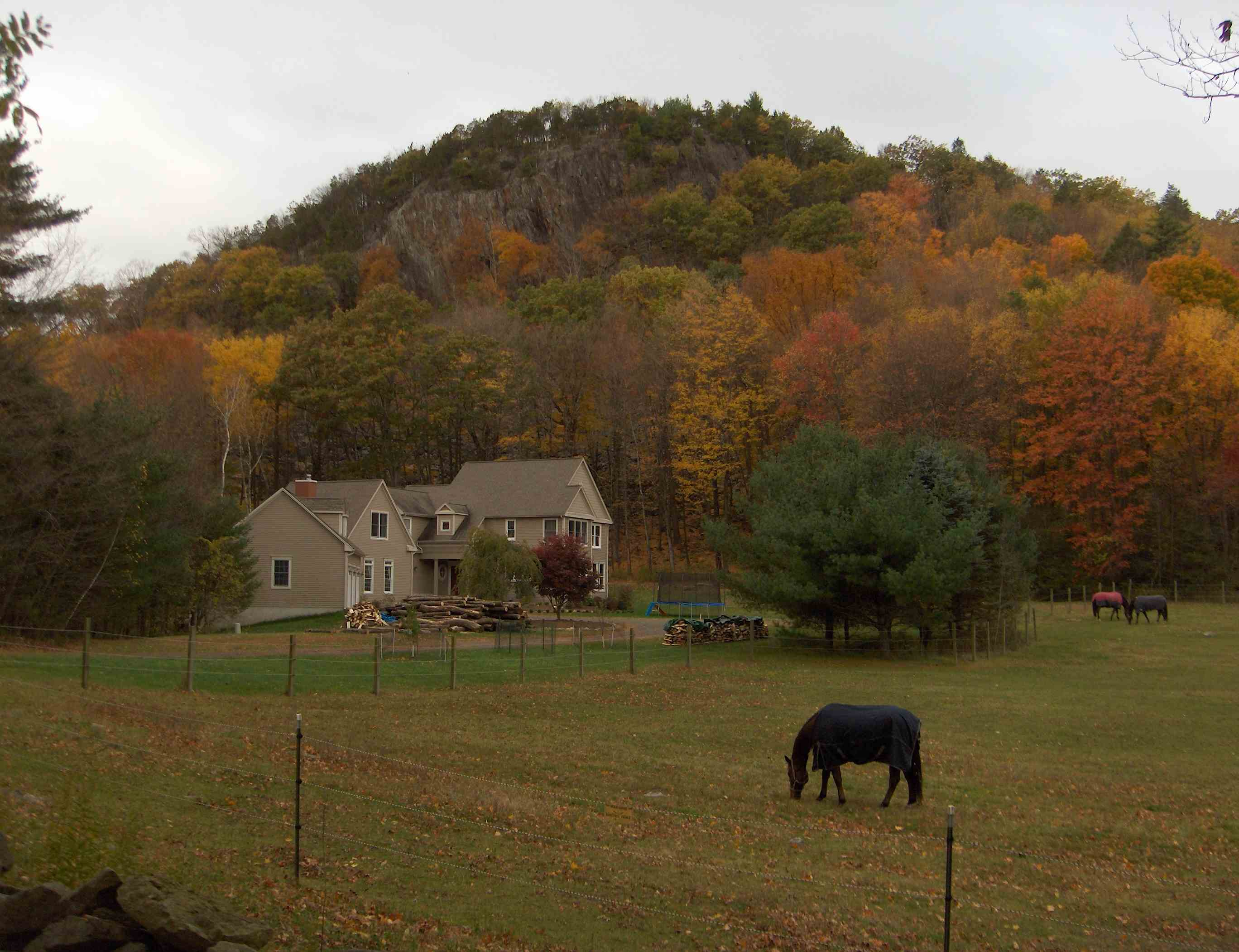 There are two Barndoor Hills, Western Barndoor Hill and Eastern Barndoor Hill ( This is a view of Western Barndoor Hill, taken from Barndoor Hills road, looking slightly south of west.